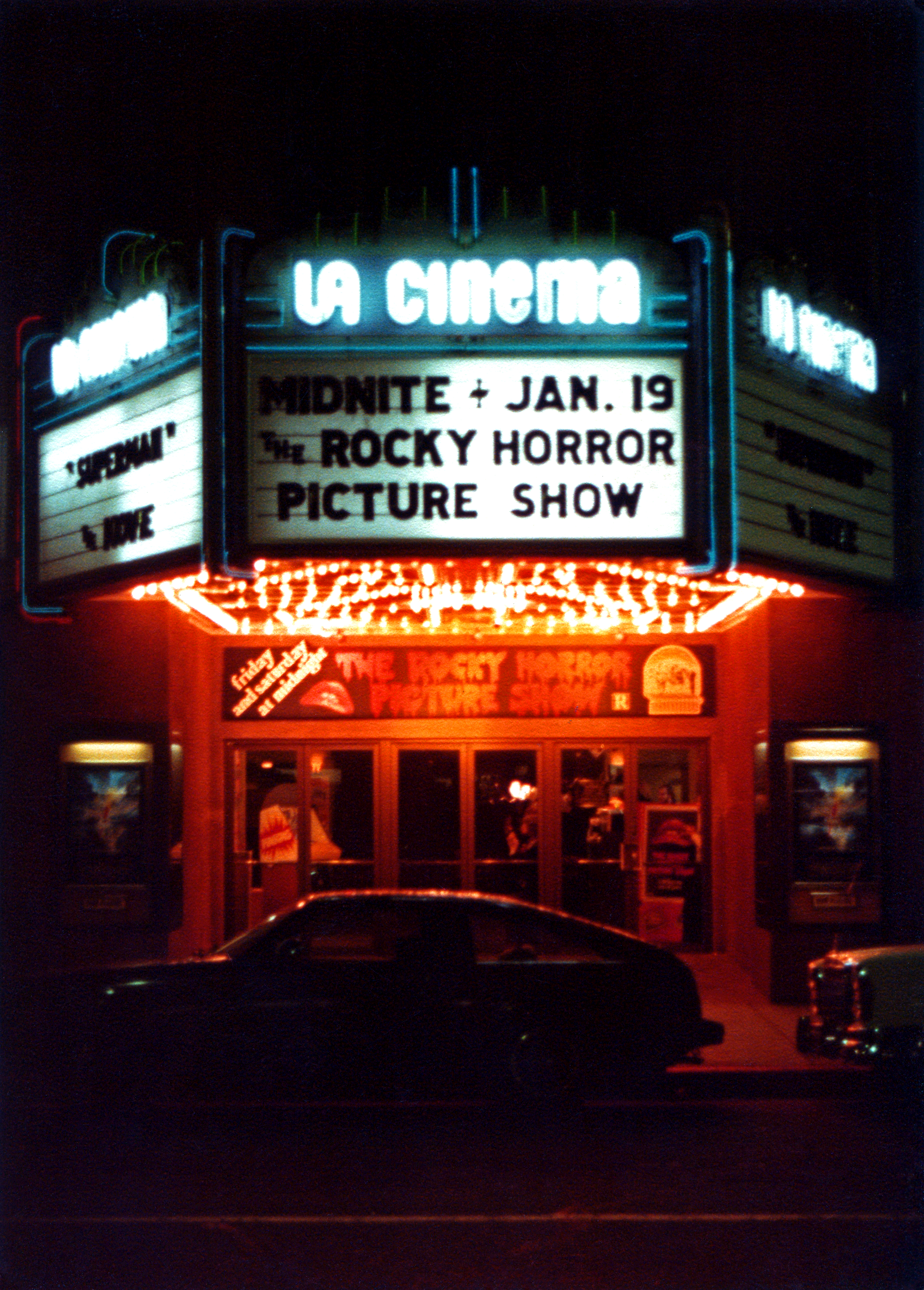 The UA Cinema on Main St. in Merced California in 1978 began midnight screenings of "The Rocky Horror Picture Show". The marquee shows the first run of "Superman:The Movie" which opened on Dec 15, 1978 and ran for at least one week.